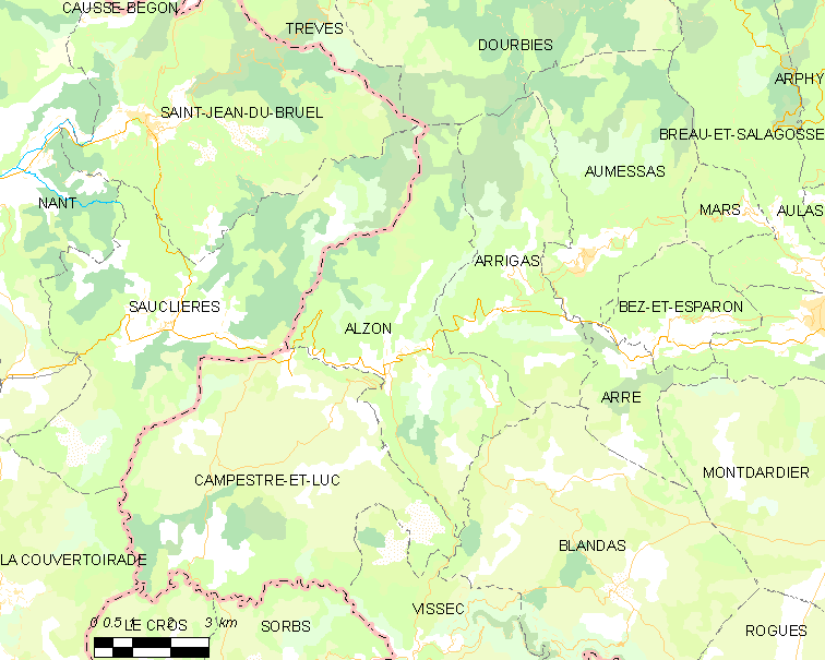 Map commune FR insee code 30009.png - Alzon